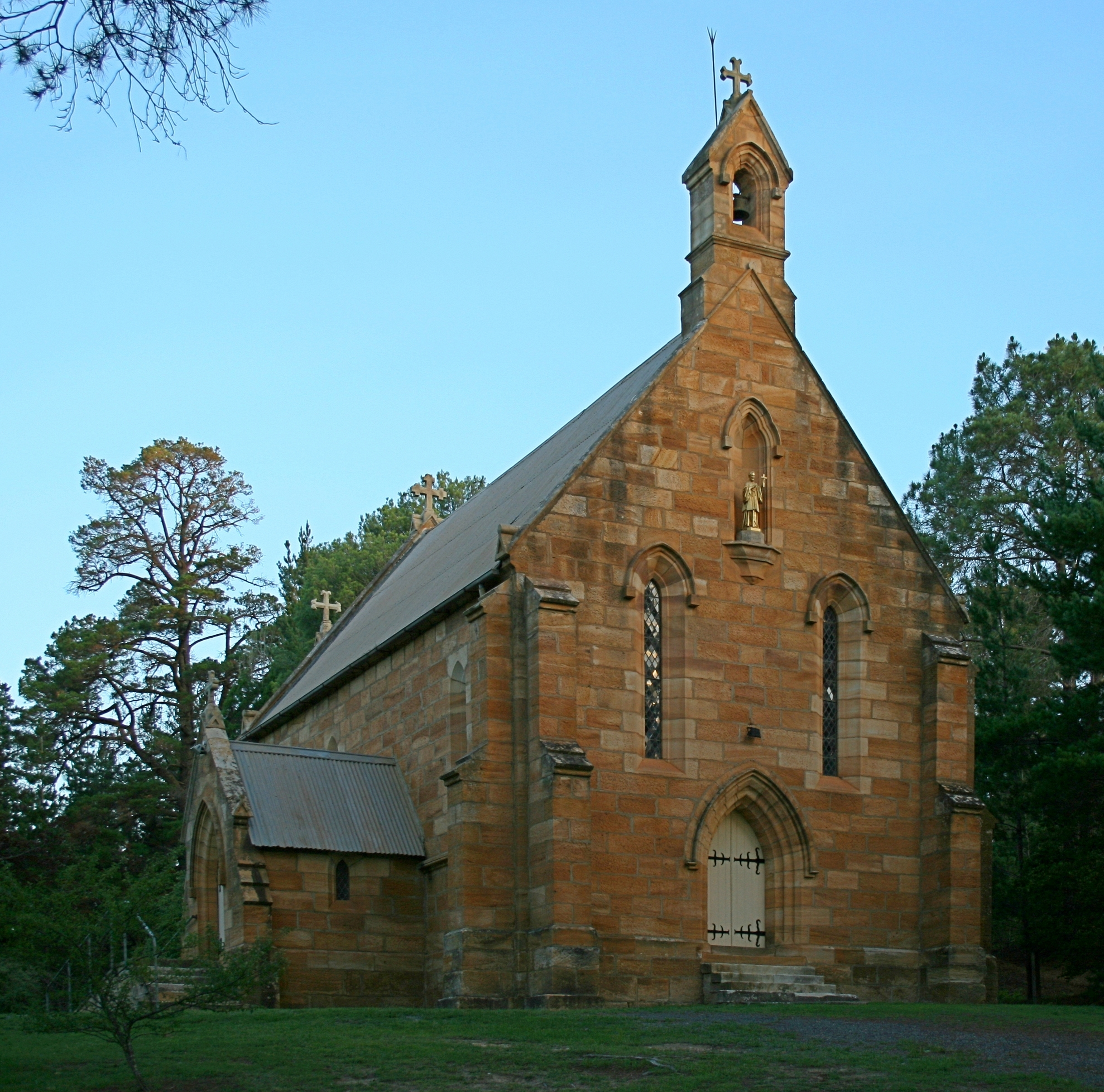 Berrima, New South Wales, Australia - St Francis Xavier's Church designed by Augustus Pugin. Foundation stone laid 1849, opened 1851.